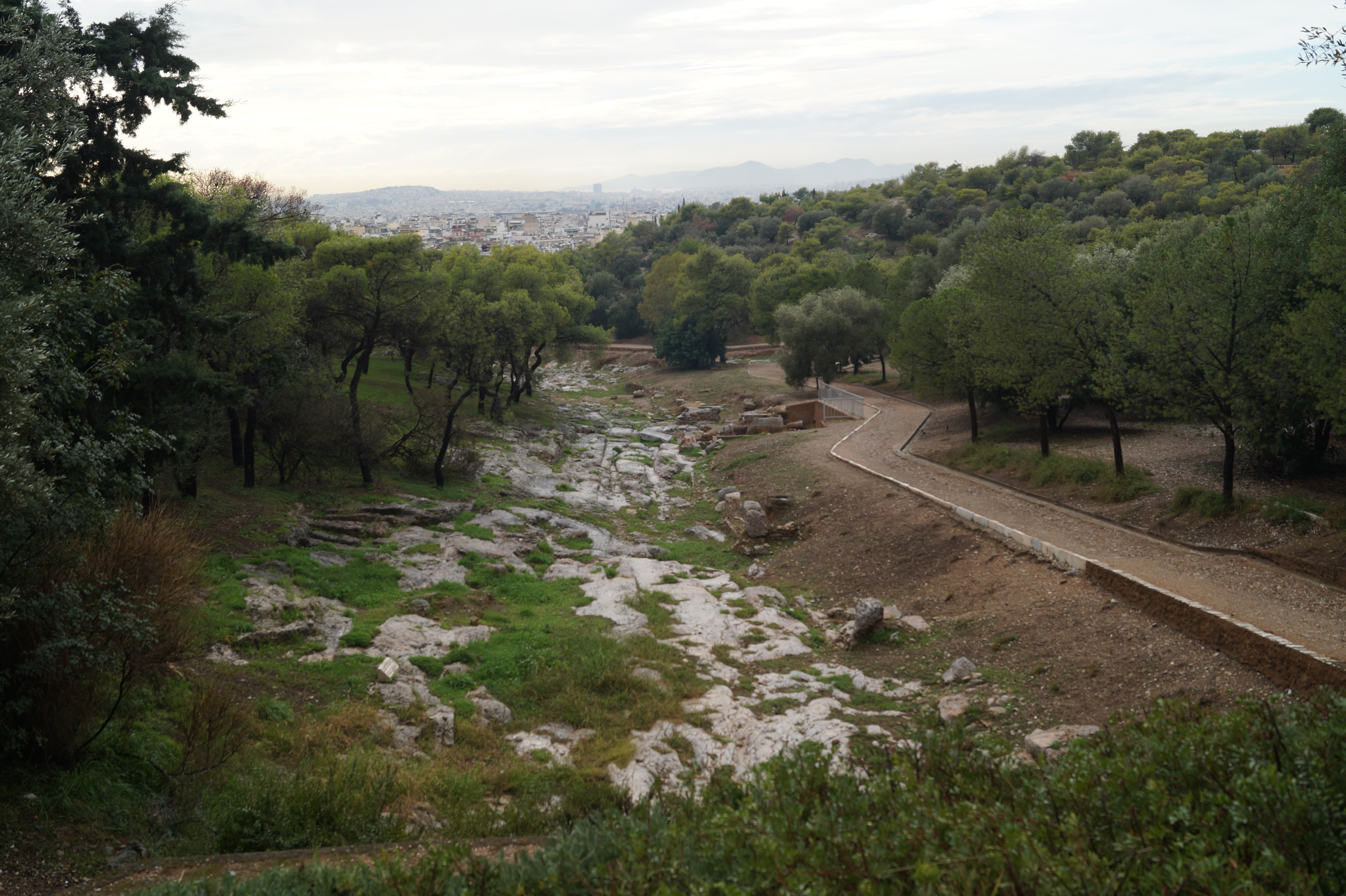 Athens, Greece: Koile road south of the Pnyx.